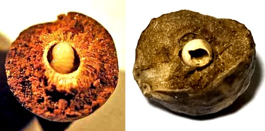 Inside view of a gall. Left: wasp larva at the center of the gall nut. Right: when the larva leaves the gall, it leaves behind a shell.